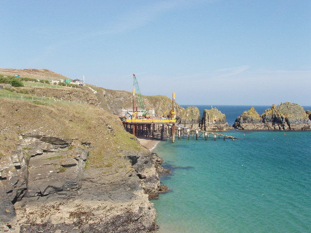 Trevose Head Lifeboat Station. The Padstow lifeboat was moved to Trevose in 1967 with a slipway for launch in all tidal conditions. Now the station is being rebuilt, to house a Tamar class lifeboat. Royal National Lifeboat Institution (RNLI) are appealing for 5.5 million pounds to pay for this. and search for "Trevose", or